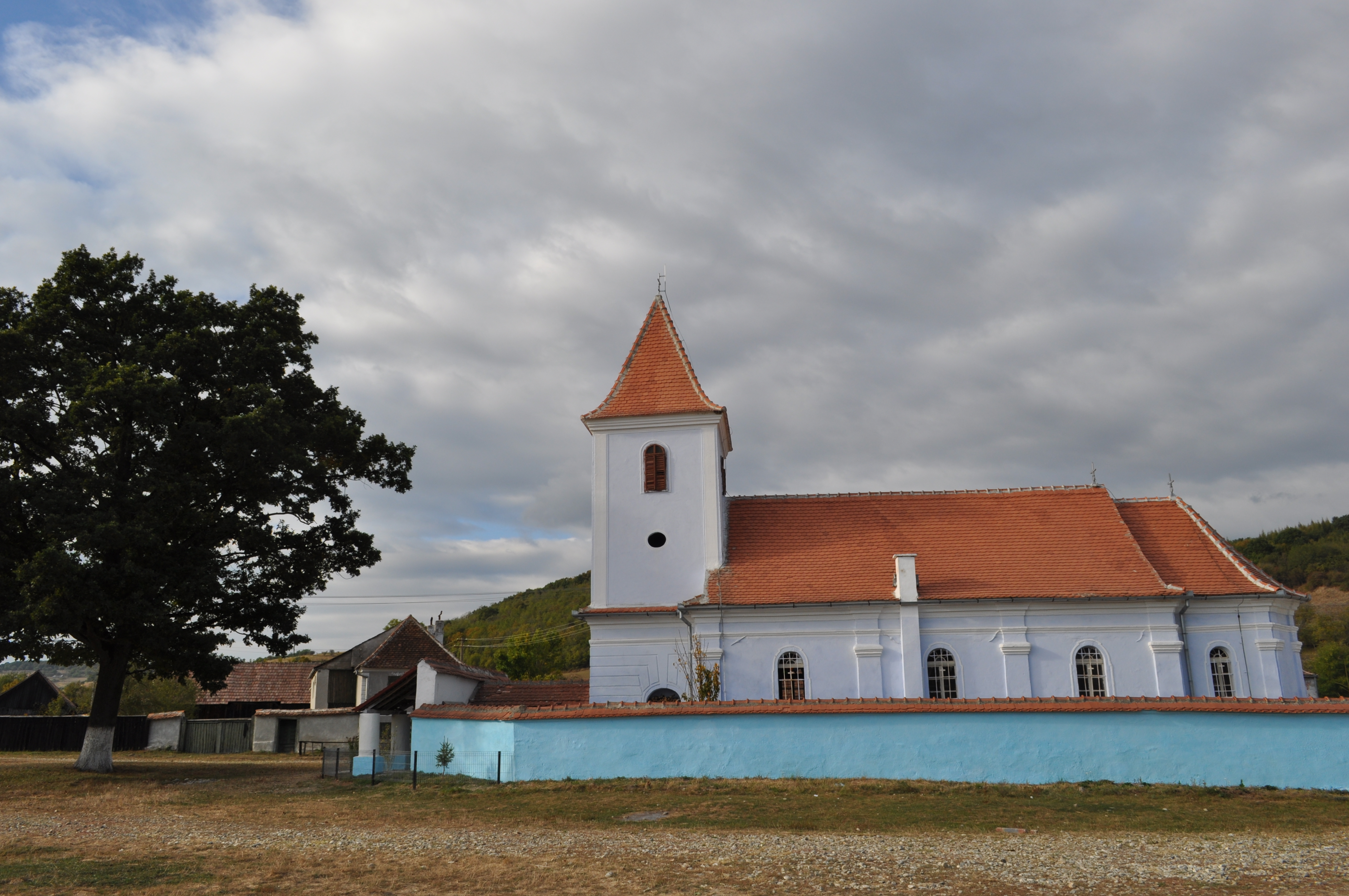 ”The Saint Pious Parascheva” church of Țichindeal, Sibiu county